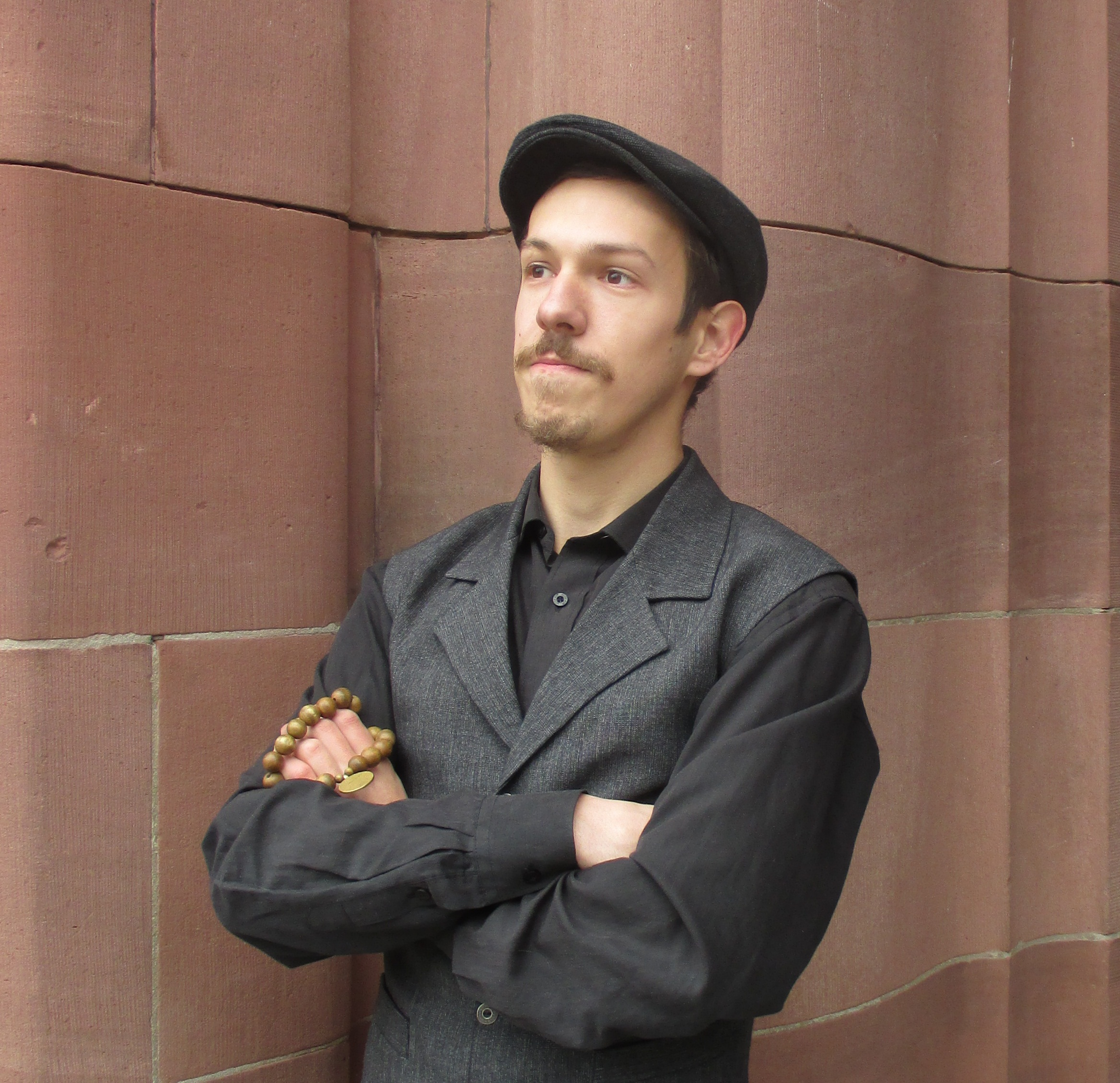 Askr Svarte in Freiburg, Germany, 2015.